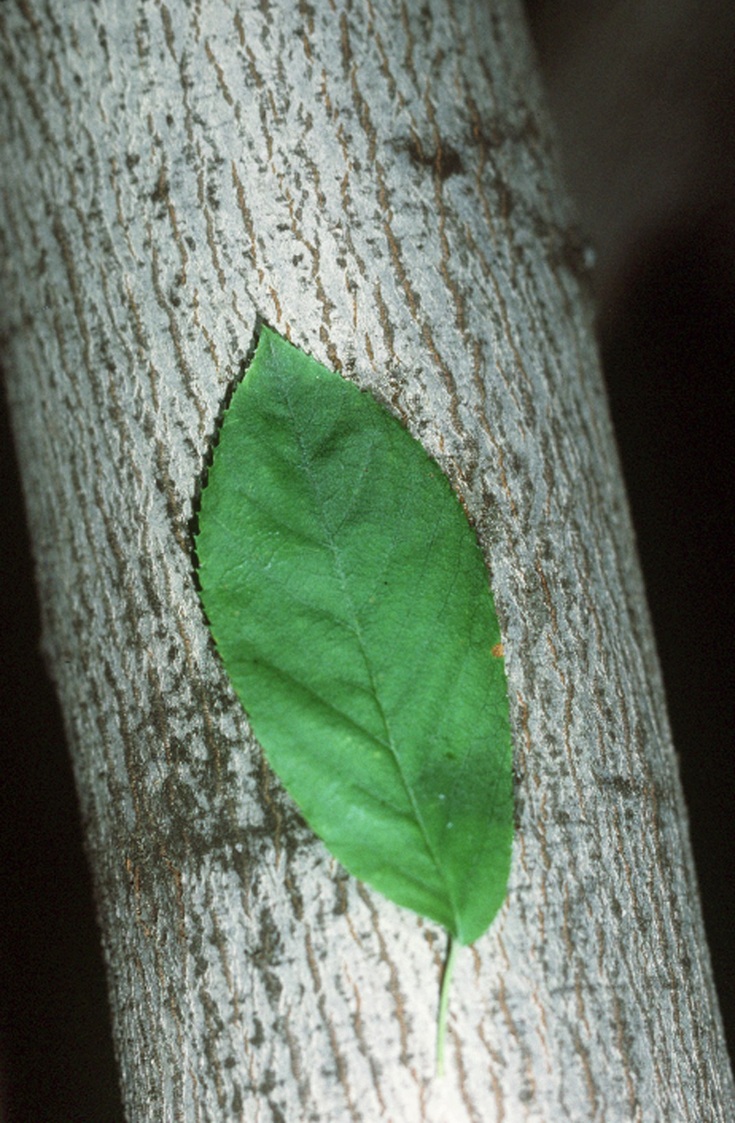 Amelanchier laevis bark and leaf